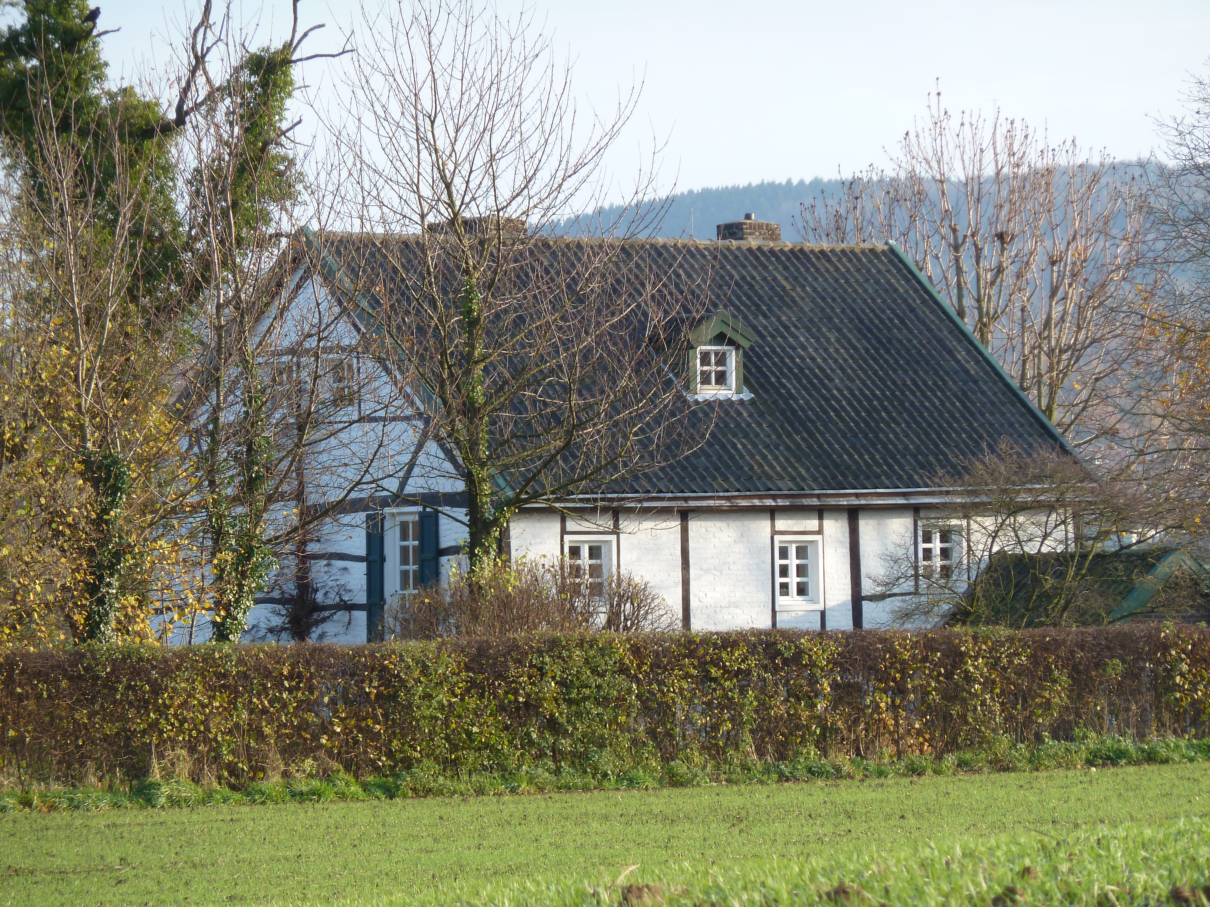 Oude Akerweg 20, Holset, Limburg, the Netherlands